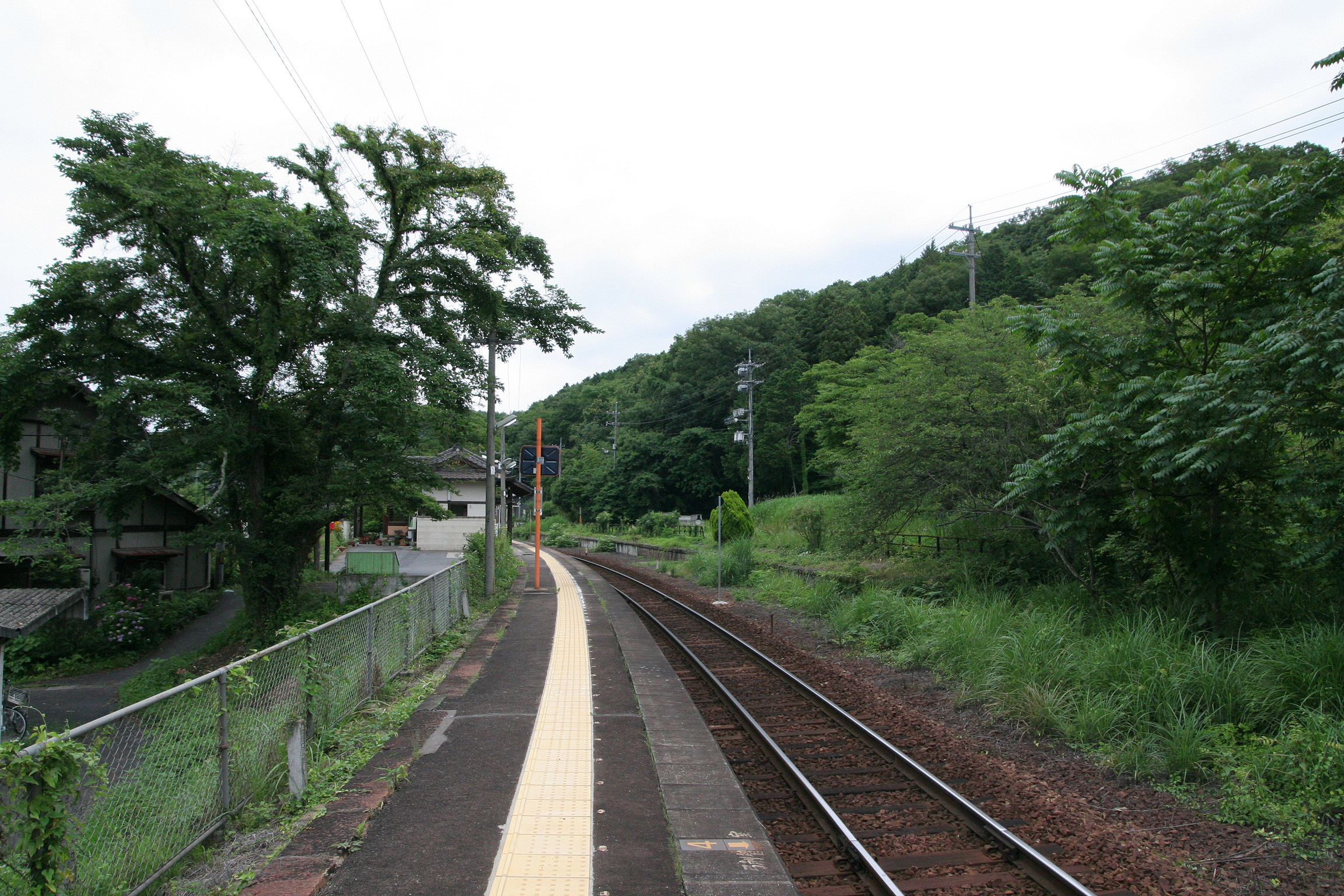 West Japan Railway Company Tsuyama Line Koume station enclosure